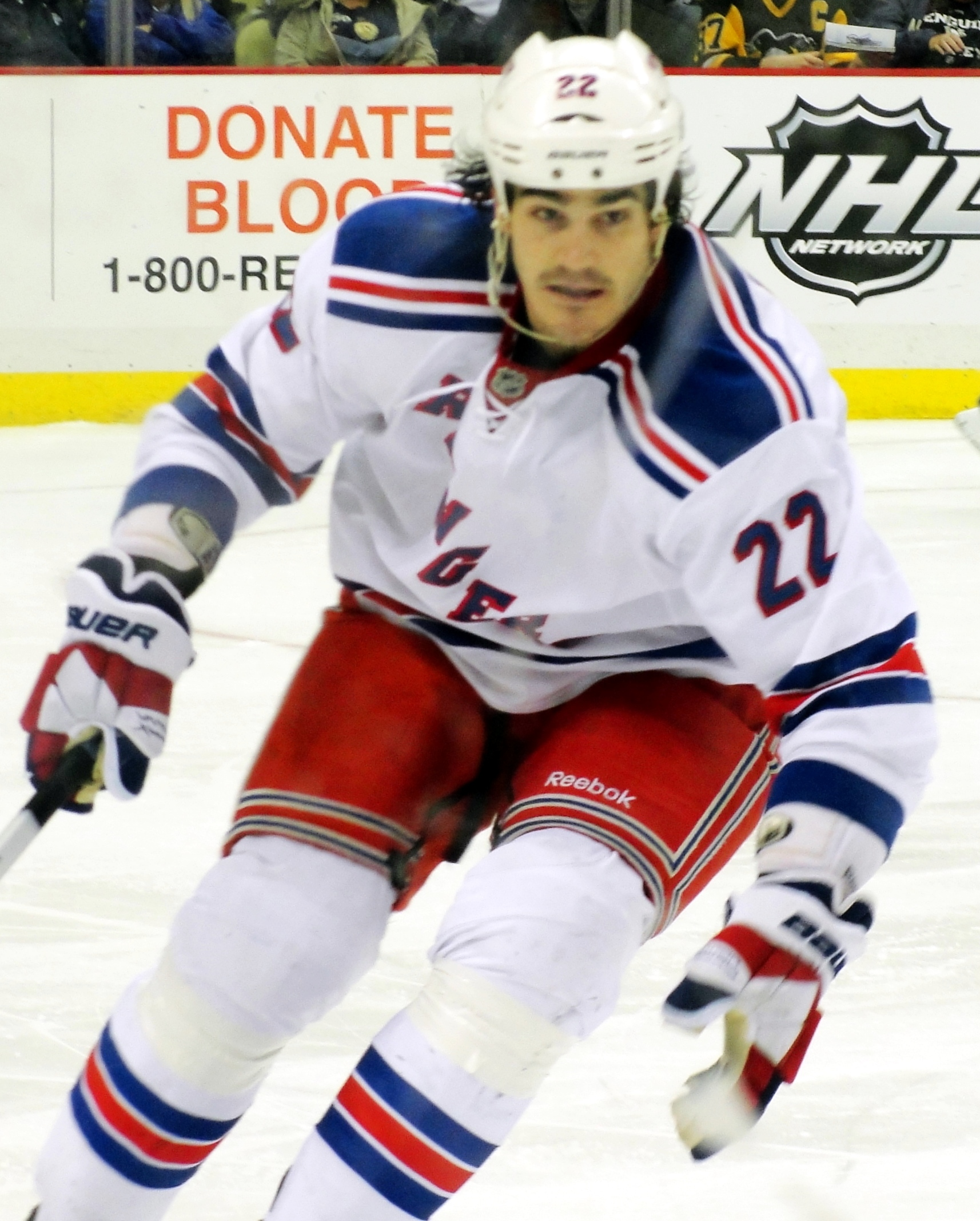 New York Rangers forward Brian Boyle during a January 6, 2012 game against the Pittsburgh Penguins at Consol Energy Center in Pittsburgh, PA.